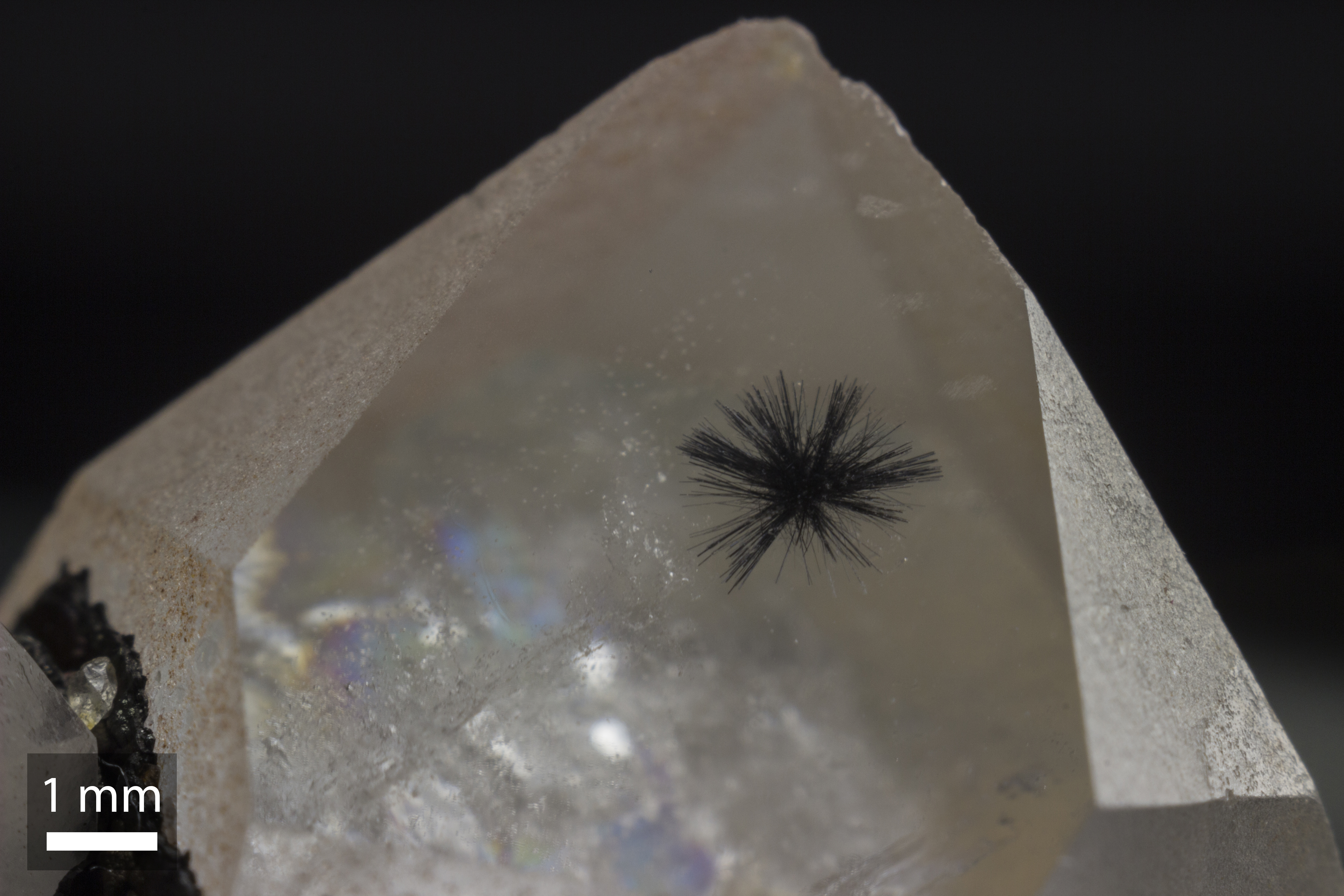 Hollandite star in quartz crystal. Hollandite is a rare mineral of oxides class. Occasionally it forms specific in form inclusion in quartz crystals, like this. If you look closely, you can see that the hollandite star is located on the face of the phantom quartz crystal. Width of the star is 2.4 mm, the face through which the photo was taken is polished.